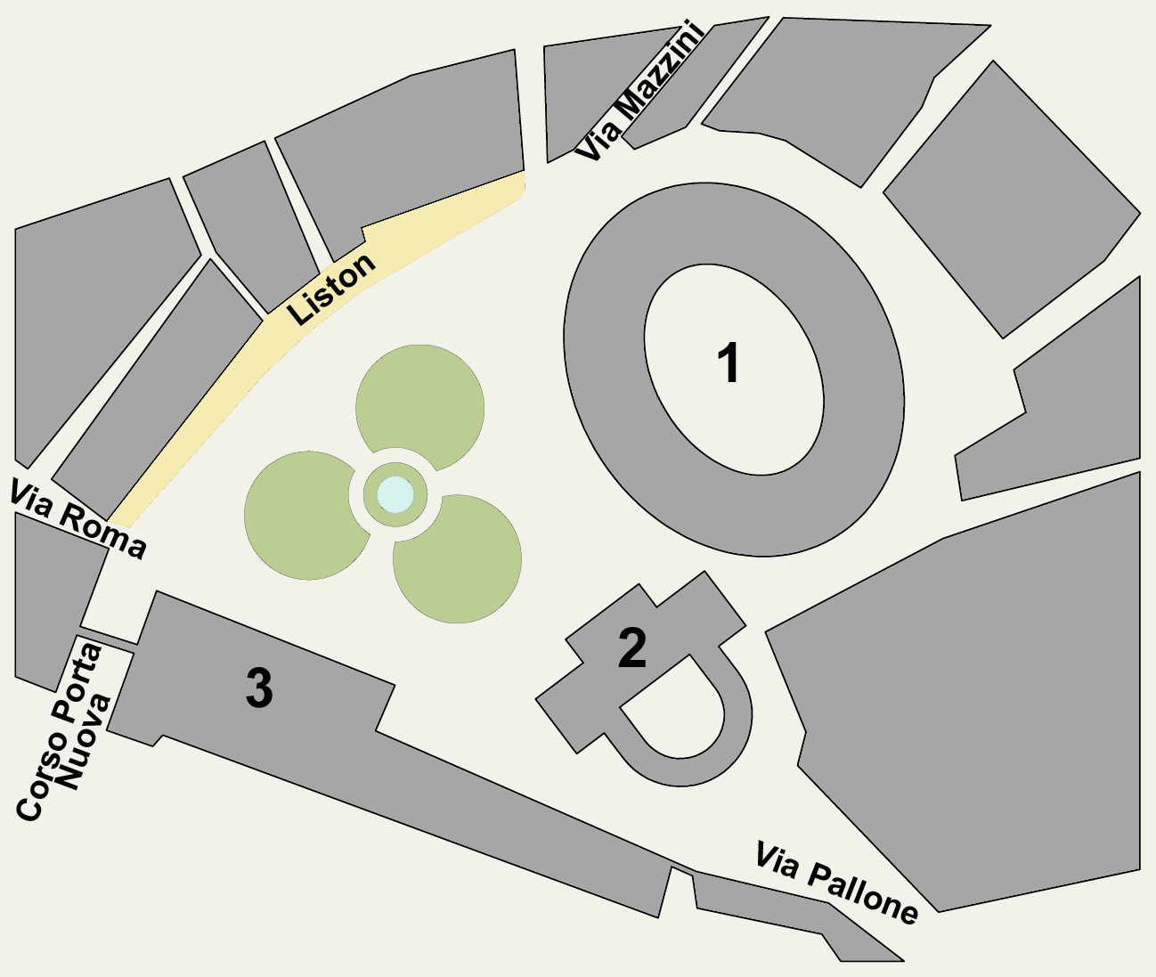 plan of Piazza Bra